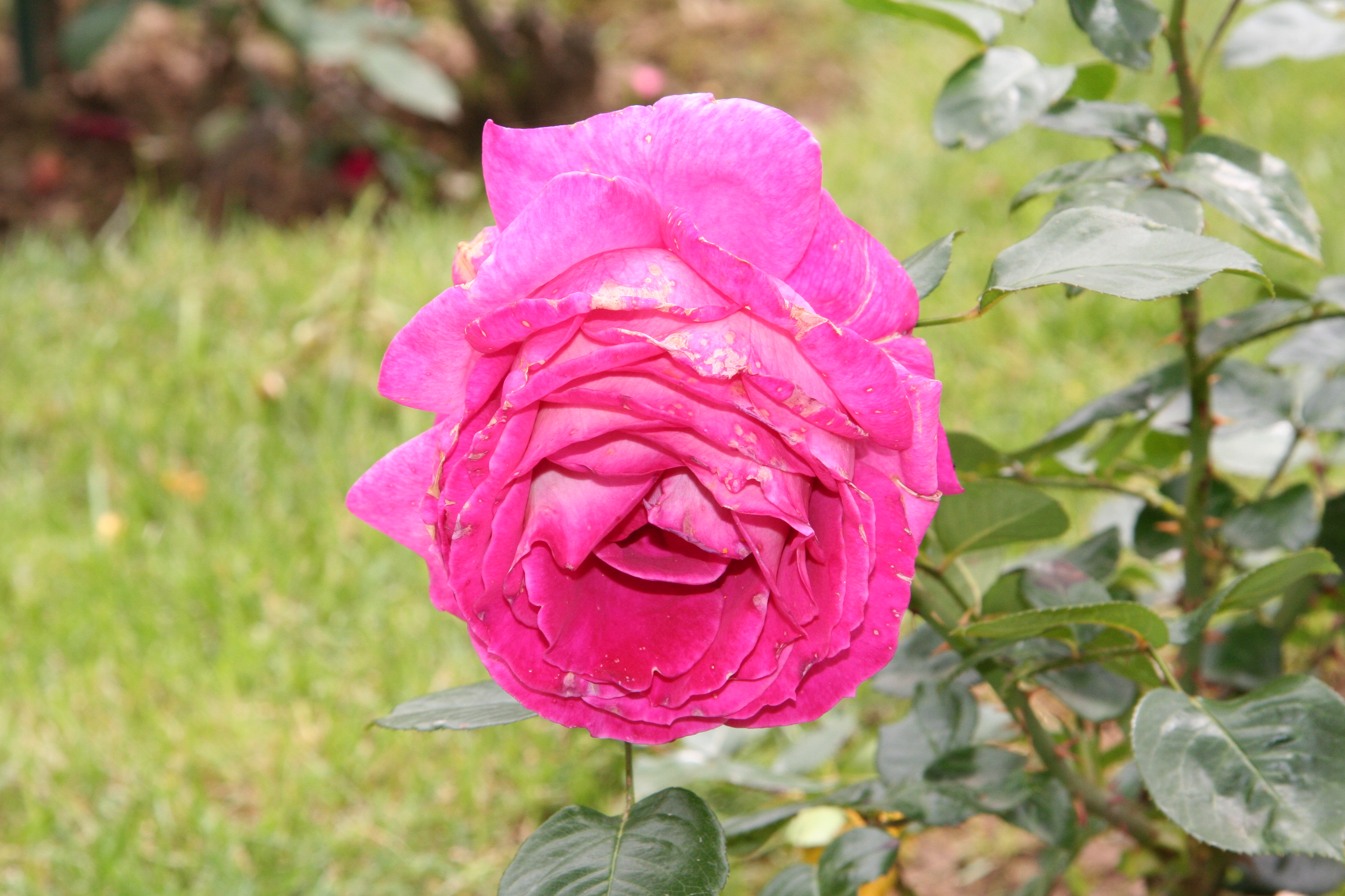 Baronne de Rothschild rose - Bagatelle Rose Garden (Paris, France).